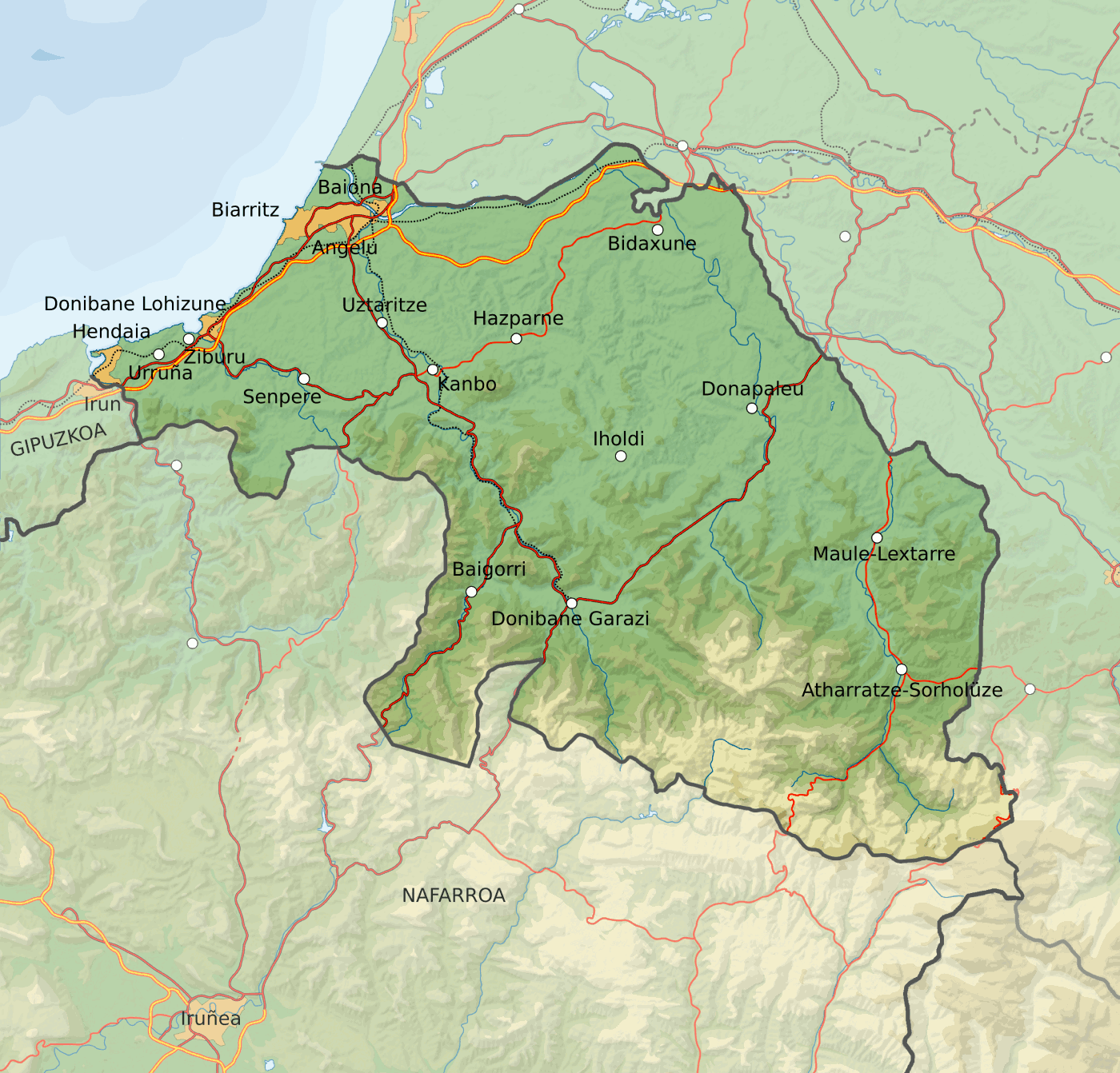 Map of North Basque Country (French side)